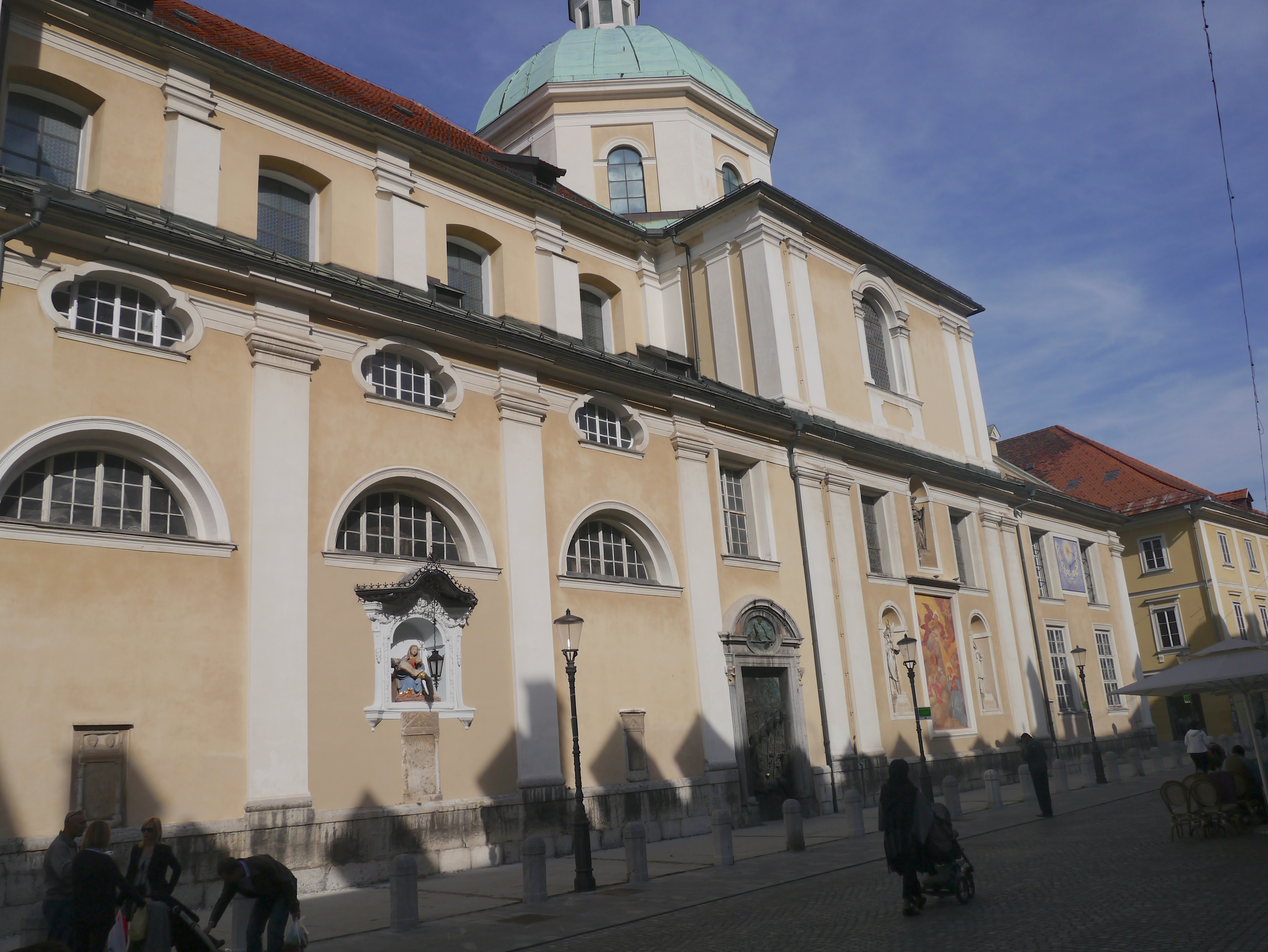 Ljubljana Catholic Cathedral